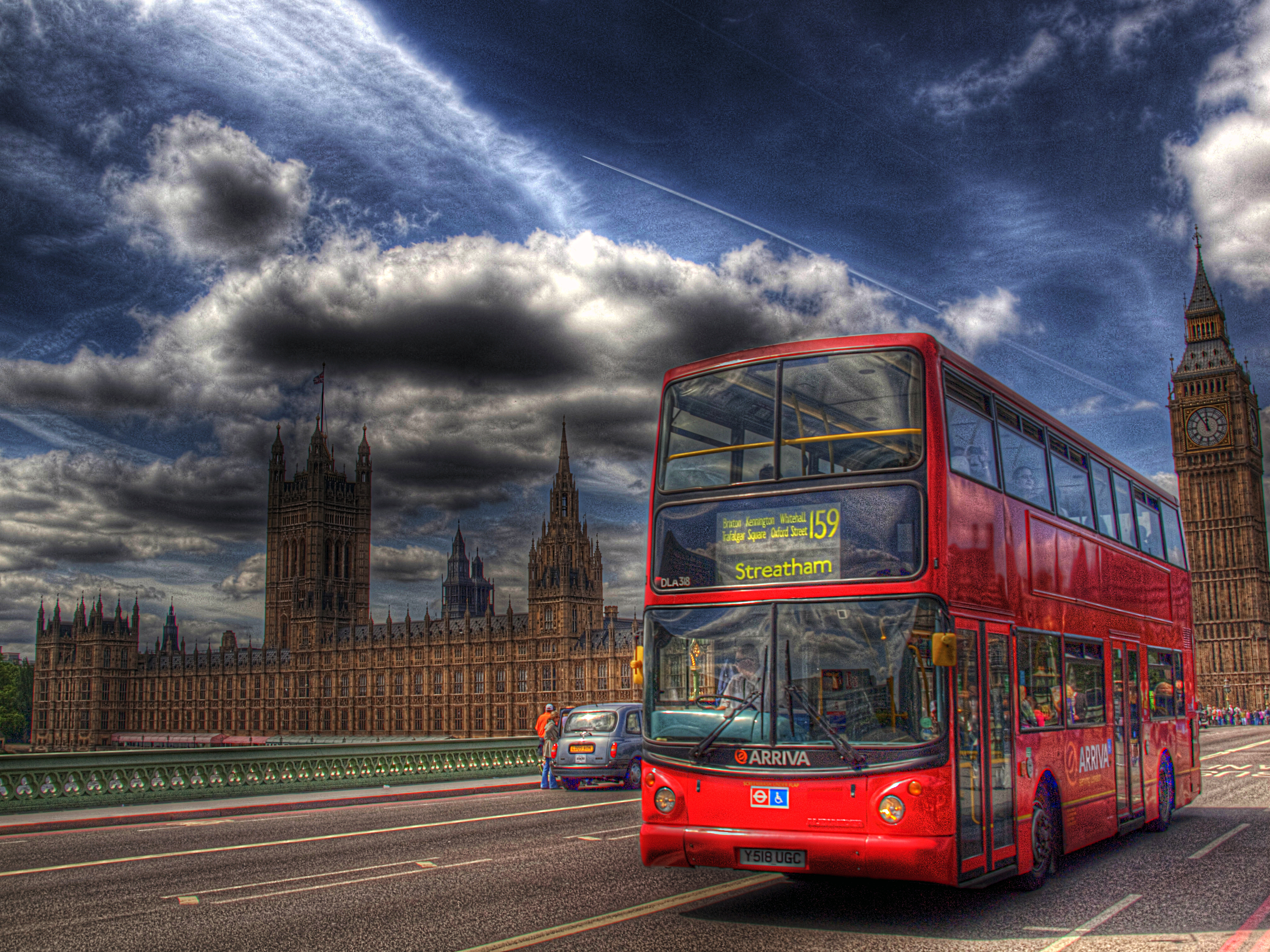 A heavily processed image of a number 159 bus crossing Westminster Bridge, with the Palace of Westminster in the background. Big Ben is the nickname for the great bell of the clock at the north end of the palace.